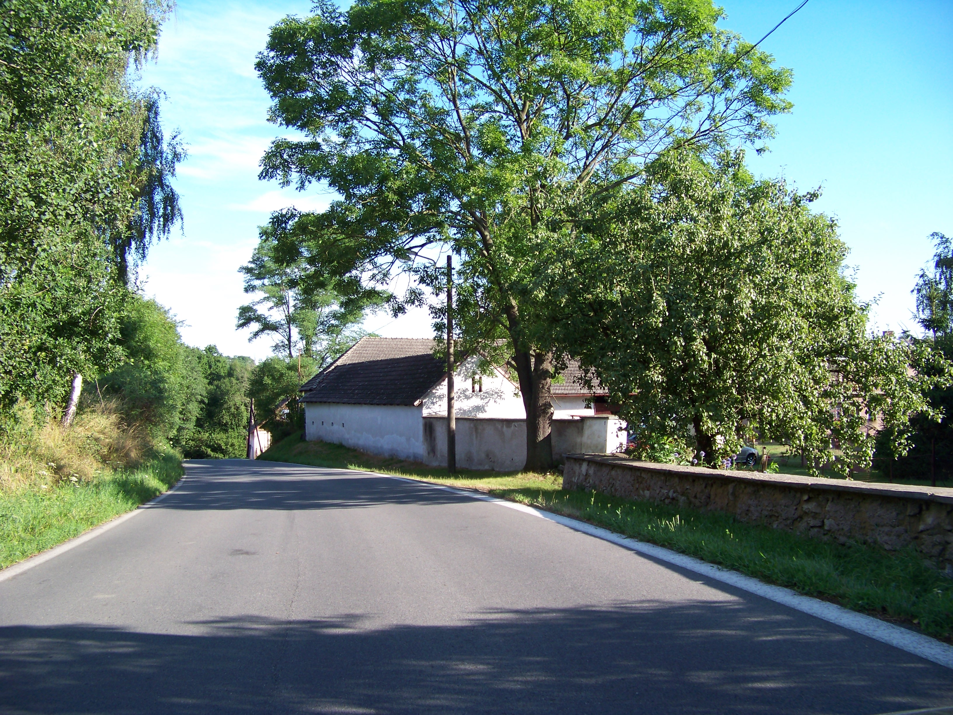 Nedrahovice-Rudolec, Příbram District, Central Bohemian Region, the Czech Republic.